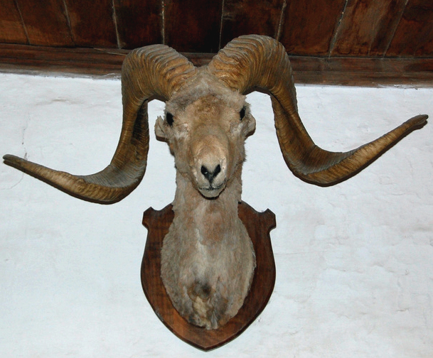 The head of a Marco Polo Sheep, cropped and recoloured from the original in Adobe Photoshop.